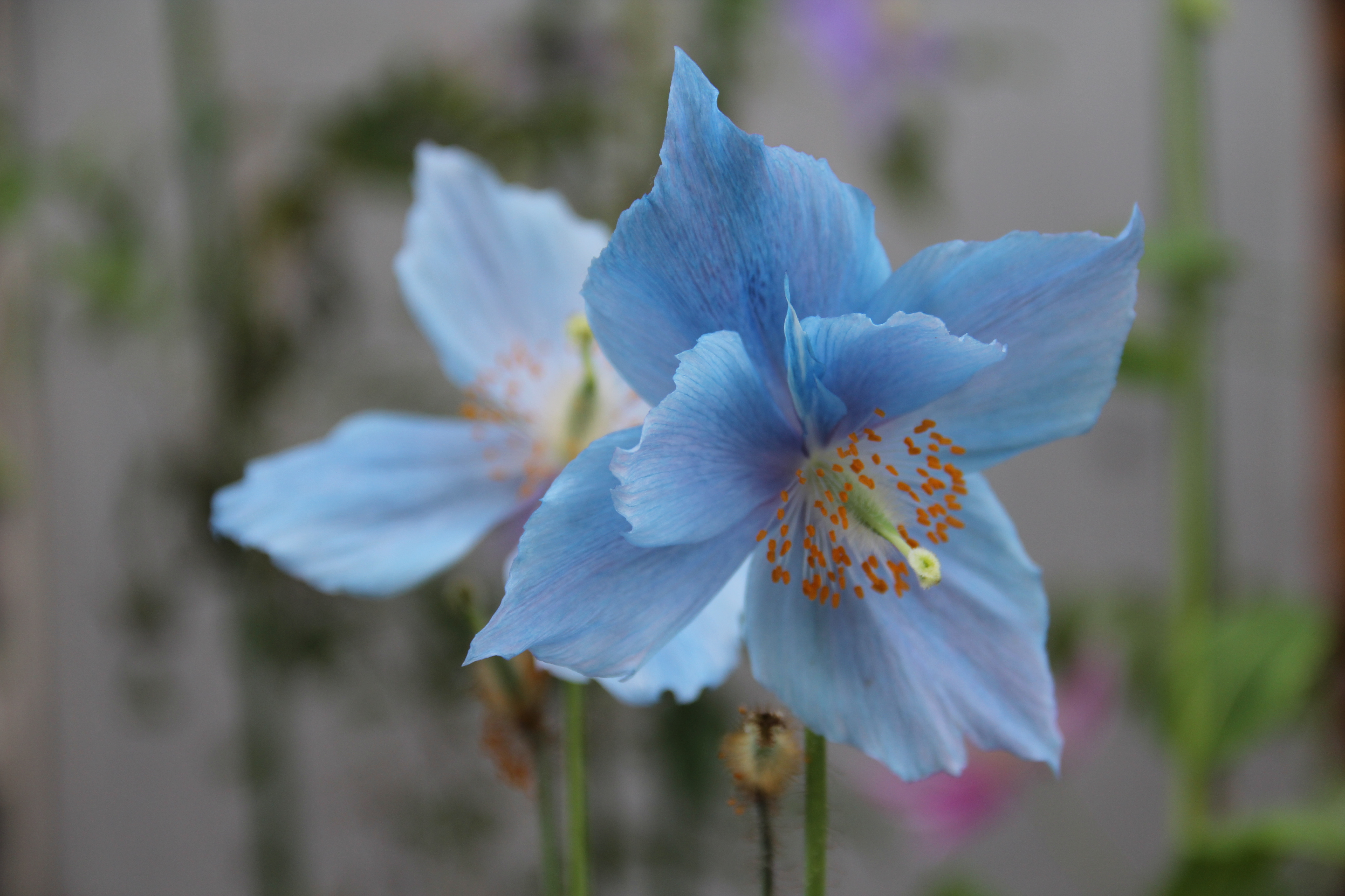 Meconopsis grandis